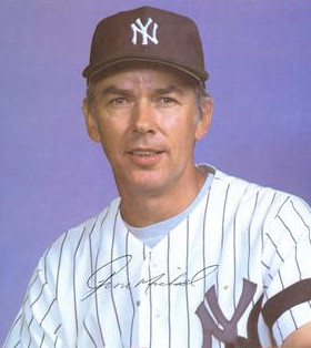 Professional baseball manager Gene Michael during the 1981 season as a member of the New York Yankees.